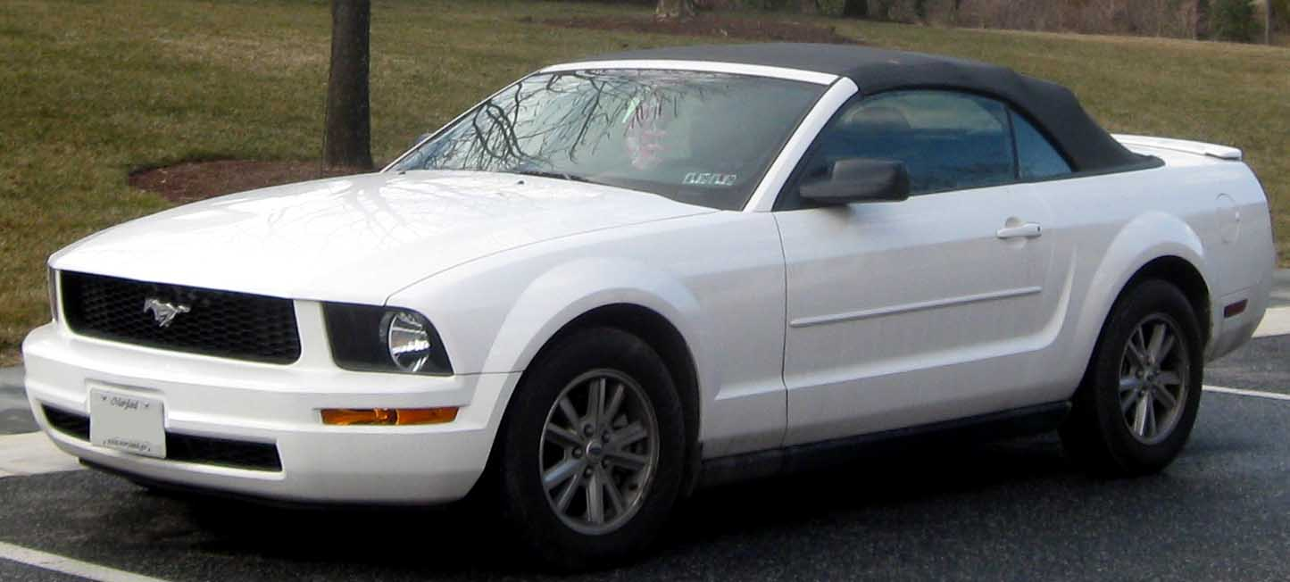 2005-2009 Ford Mustang photographed in College Park, Maryland, USA.